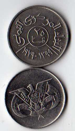 25 north Yemeni fils minted in 1979